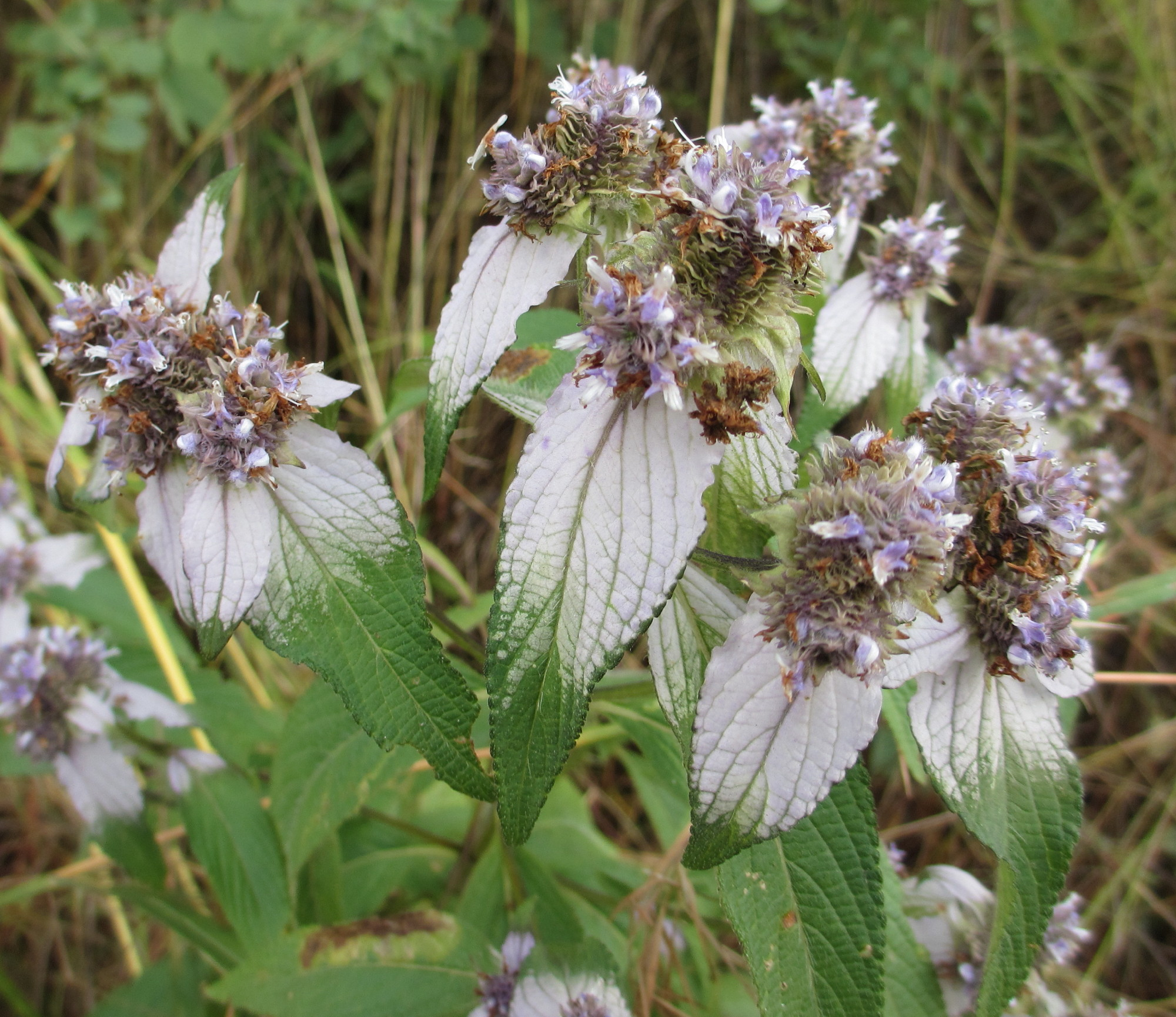 On the Makonde Plateau of northern Mozambique. Haumaniastrum villosum